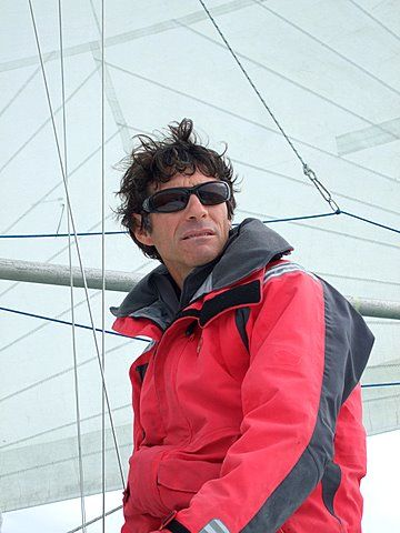 Photograph of Bruce Kendall